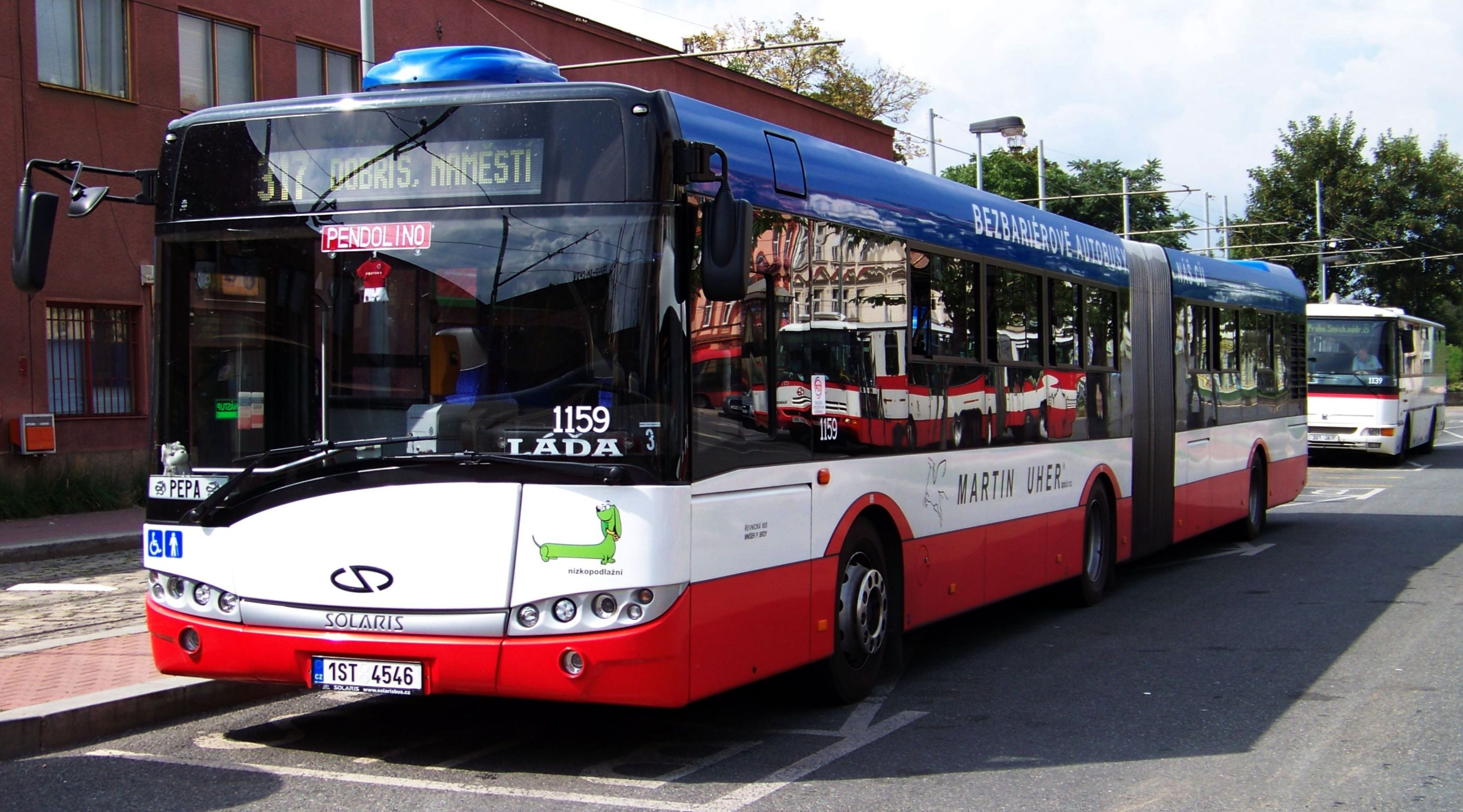 Prague-Smíchov, the Czech Republic. Smíchovské nádraží bus terminal, a bus Solaris Urbino 18 (1ST 4546, #1159) of Martin Uher company. Built 2011.